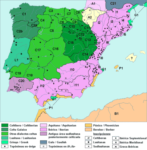 Prehispanic languages, boundaries are a reconstruction based on orographical factors, not exactly the real boundaries. The linguistic adscription of some tribes can be controversial, the letter-number area not necessarily represent different dialect, but cultural-geografical areas.